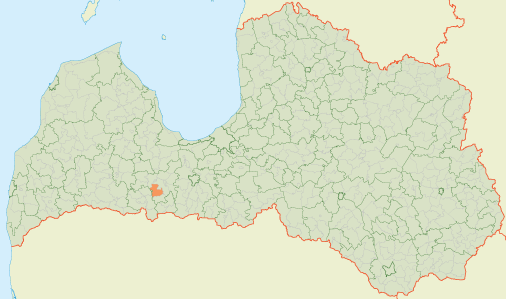 Location of Naudīte Parish in Latvia